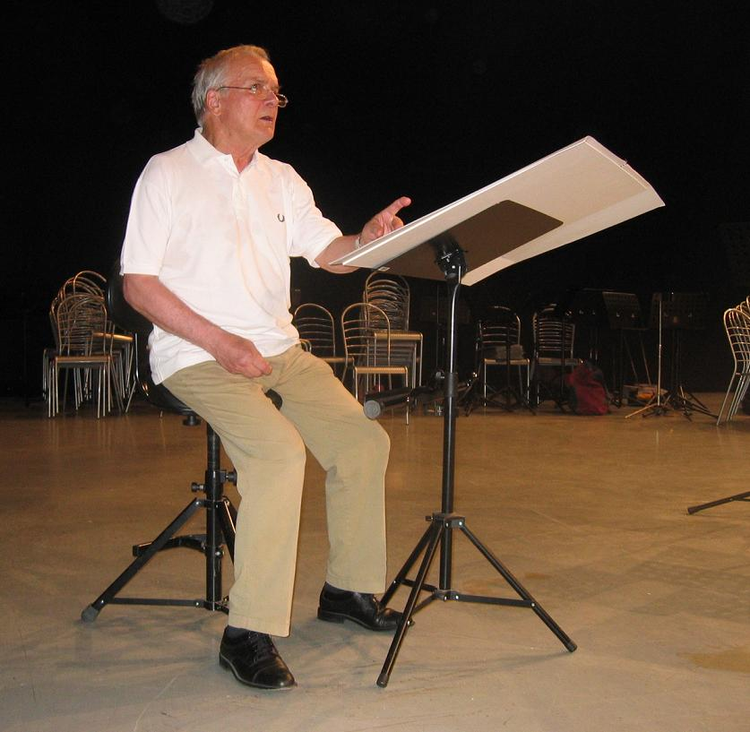 Vinko Globokar, slovenian composer and trombone player (2006) photo:Ziga 09:25, 19 June 2006 (UTC)